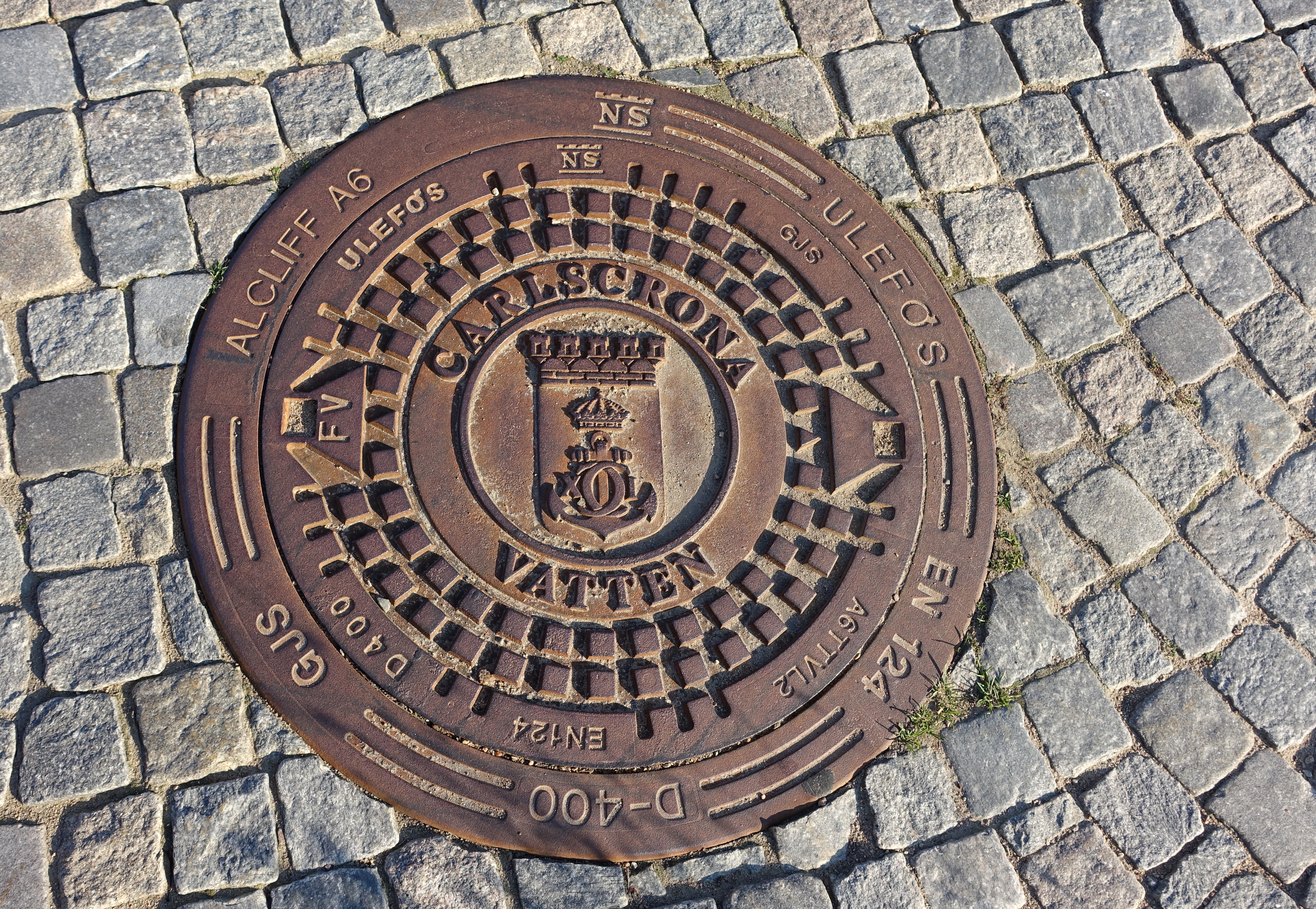 Manhole cover - Karlskrona, Sweden.